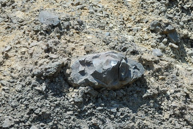 Volcanic Bomb at Mt. Avital, Golan Hights